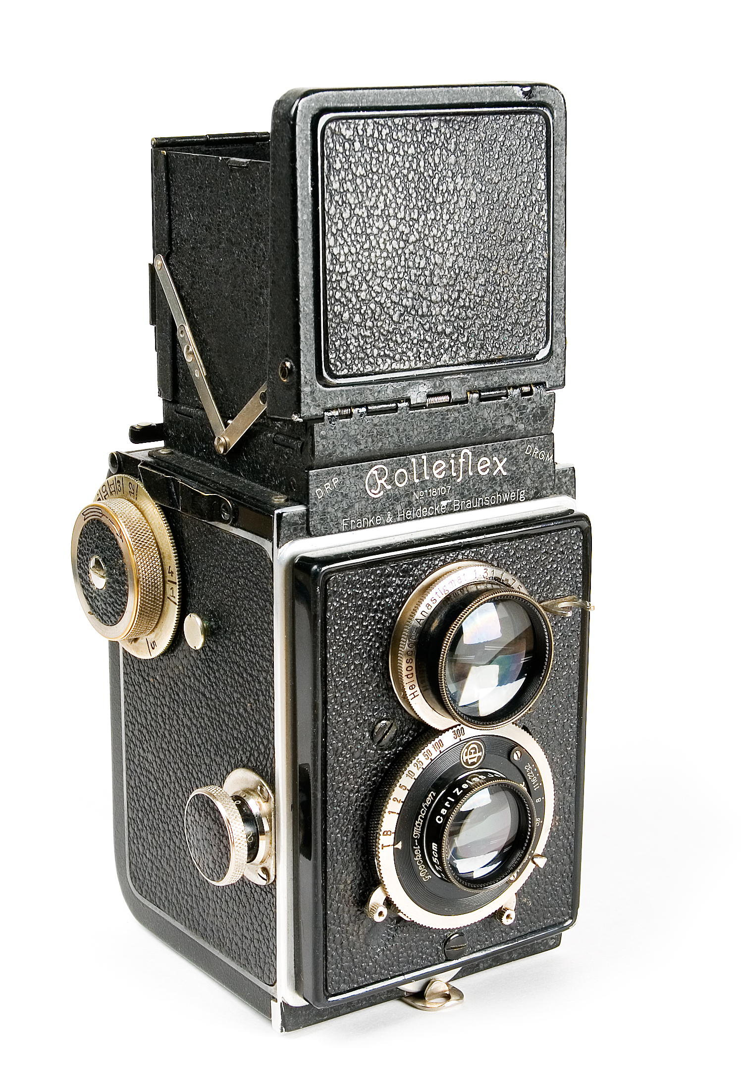 Rolleiflex Original camera with Carl Zeiss Jena Tessar f/3.8, 7.5cm